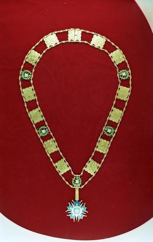 Order of the Quetzal, in the degree of the Gran Collar. Presented to President Richard von Weizsäcker of West Germany during his visit to Guatemala in 1987